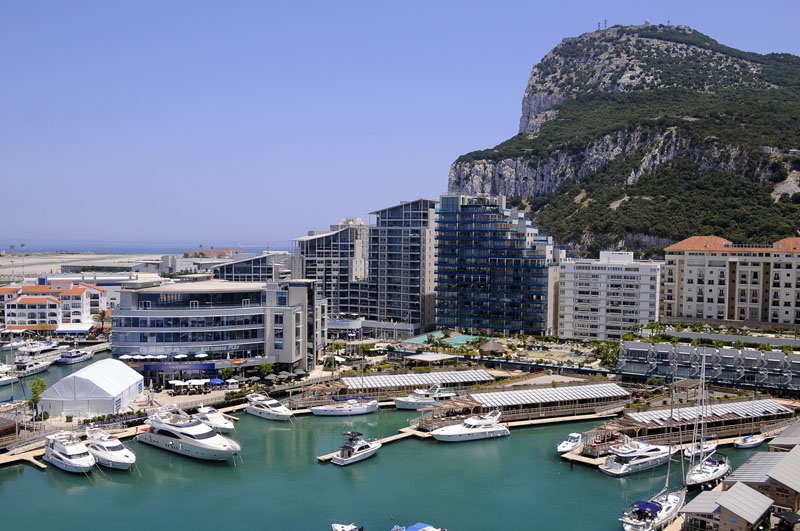 A View of Ocean Village in Gibraltar with the Rock of Gibraltar rising in the background